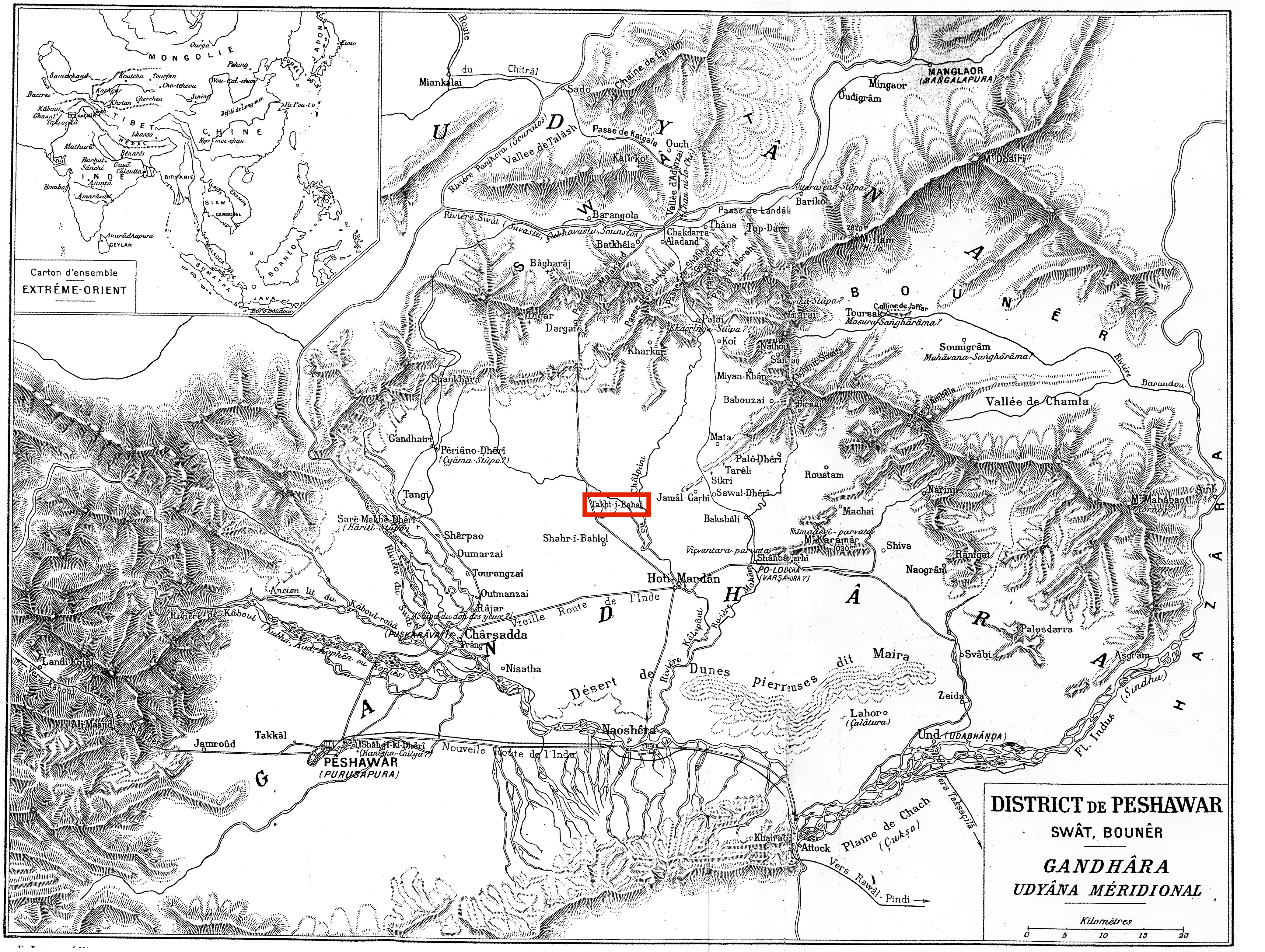 Gandhara Tahkt-i-Bahi